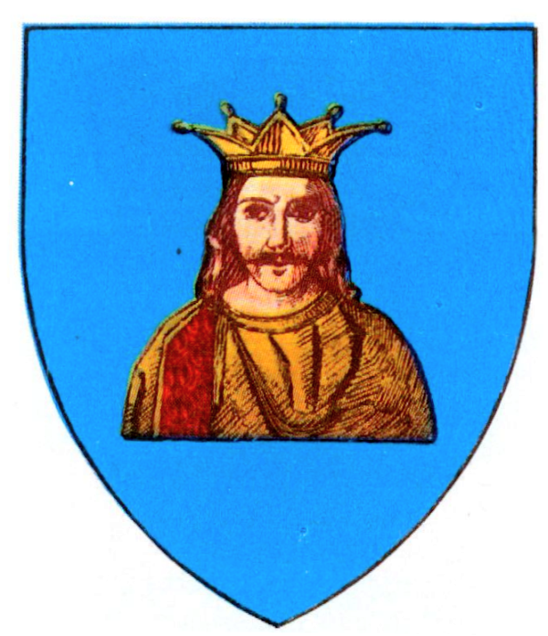 Interwar coat of arms of Durostor County, Kingdom of Romania.